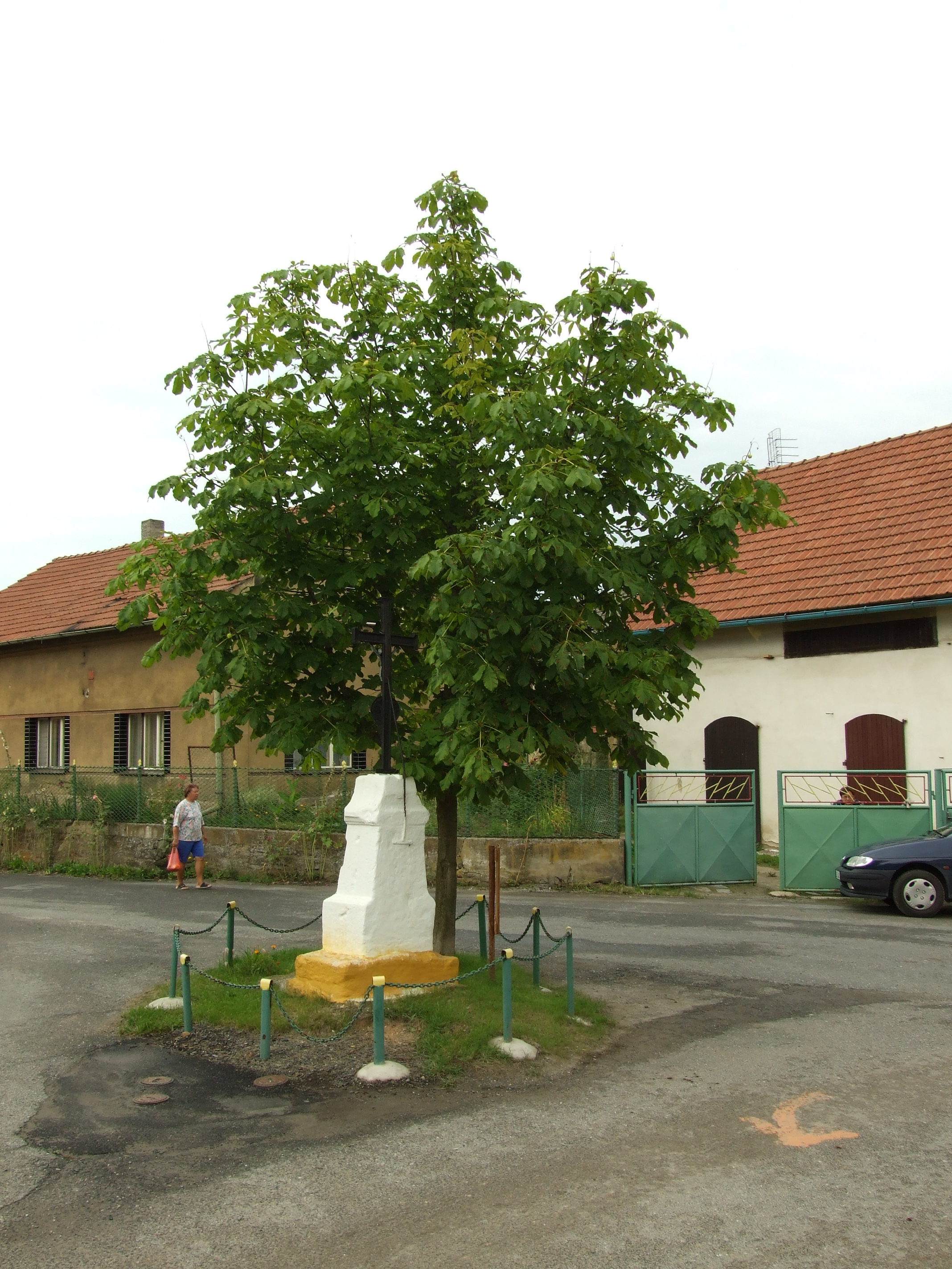 A cross on a crossing in Bílichov. Central Bohemian Region, CZ